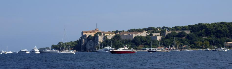 The Fort Royal and the village of Sainte-Marguerite.